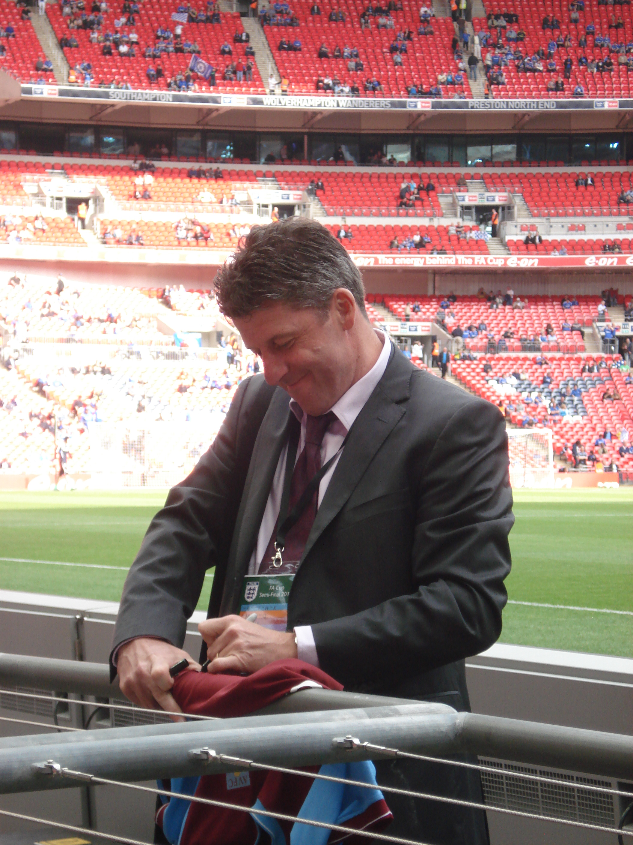 Former Republic of Ireland international Andy Townsend signing an autograph at the 2010 FA Cup Semifinal.